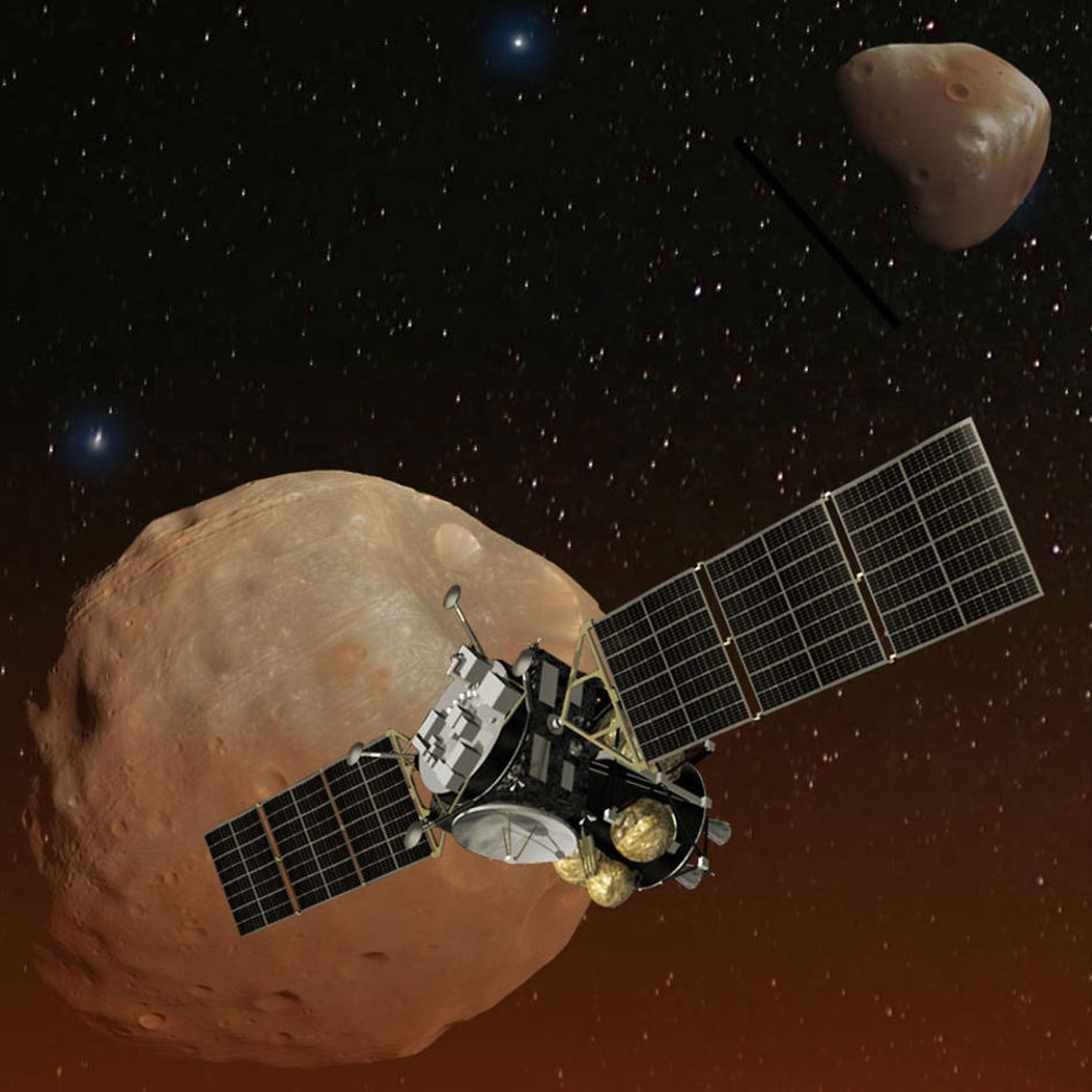 Artist’s concept of Japan’s Mars Moons eXploration (MMX) spacecraft, carrying a NASA instrument to study the Martian moons Phobos and Deimos.